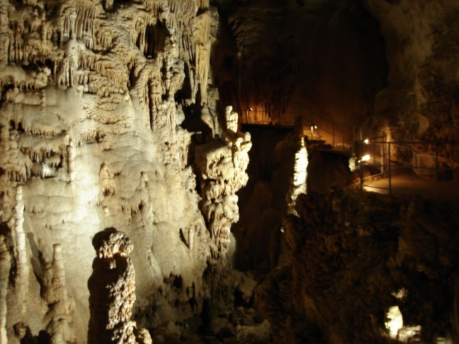 cave Emine Bayır Hosar